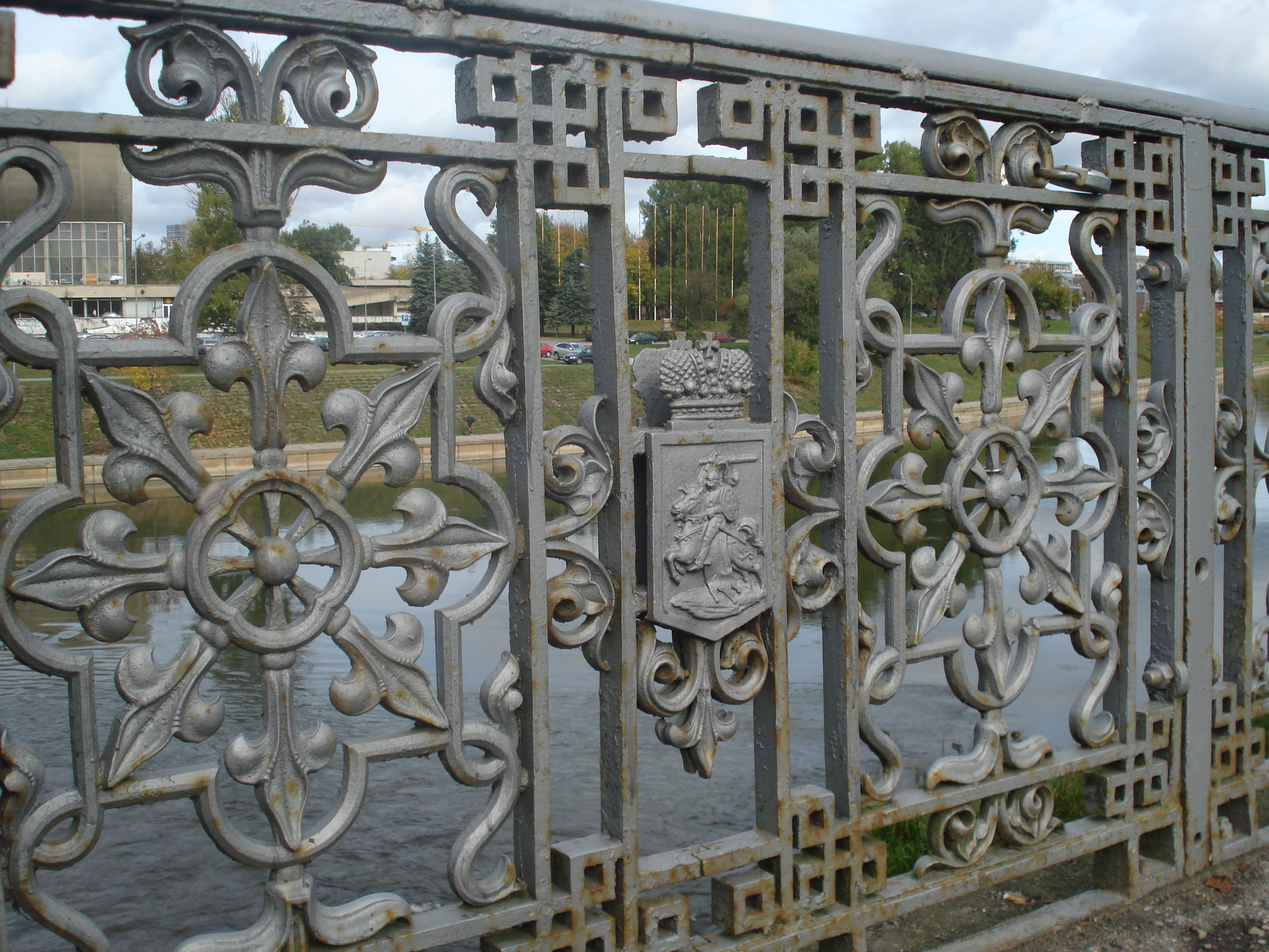 Coats of arms. Castle bridge (Pilies tiltas) over Vilnia river in Vilnius.